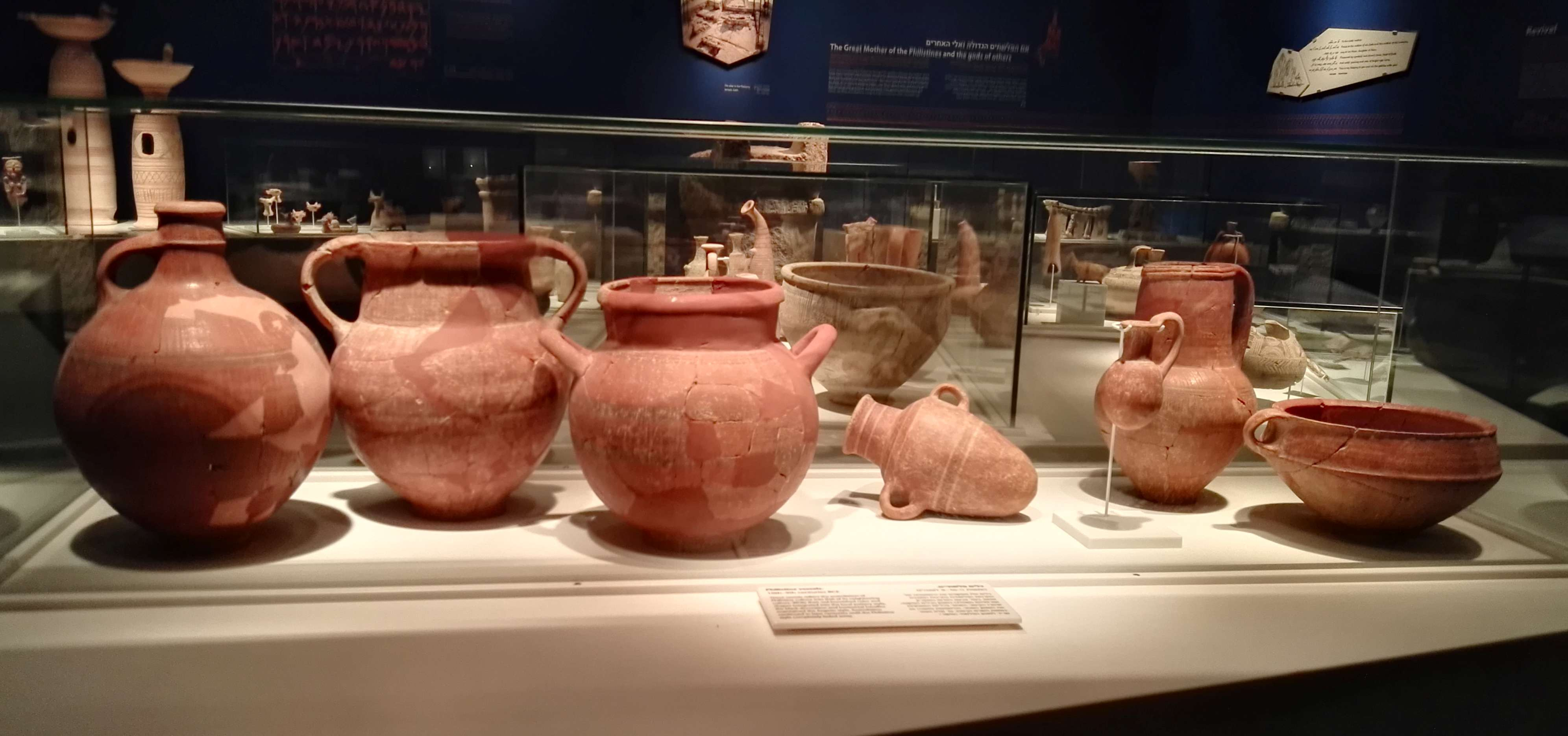 Museum of Philistine culture, Ashdod, Israel.